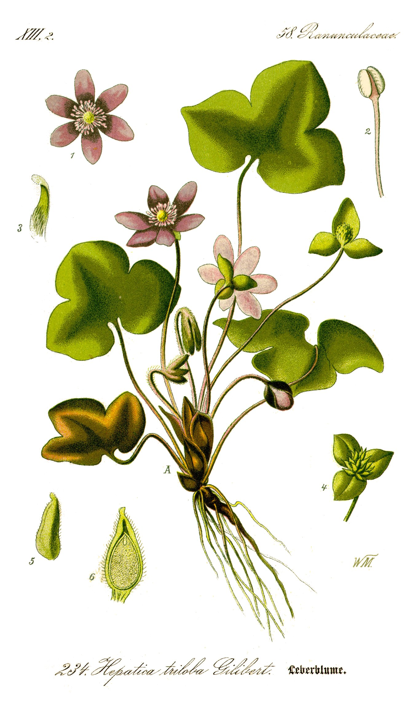 Name Hepatica nobilis Family Ranunculaceae